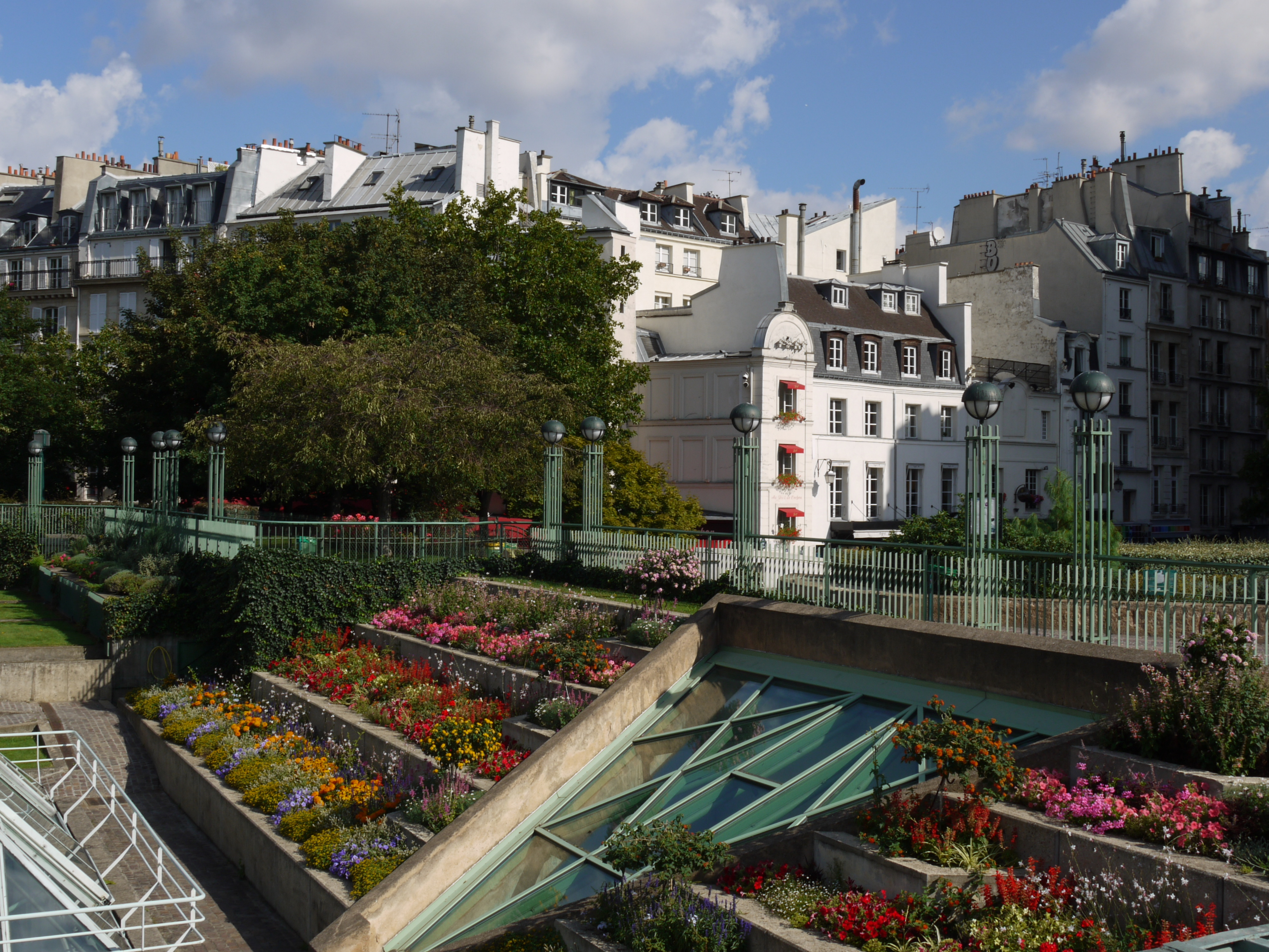 Jardin des Halles, Paris